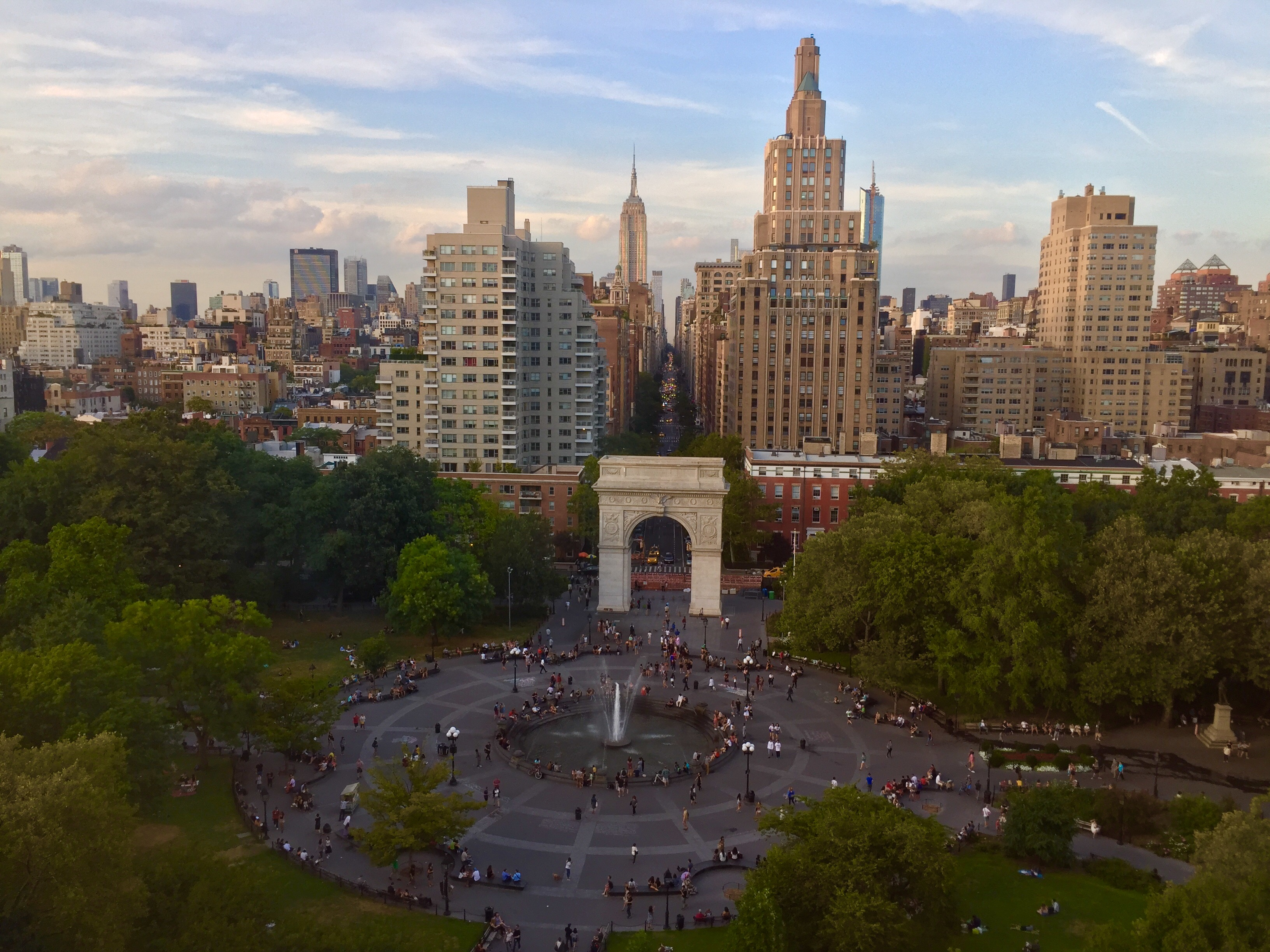 View of Washington Square Park (and Arch) with view of uptown Manhattan.